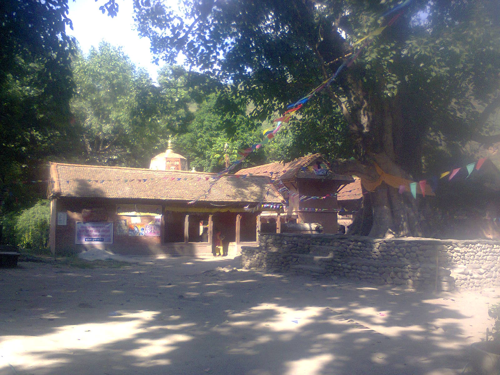 कुशेश्वर महादेव मन्दिर परिसर